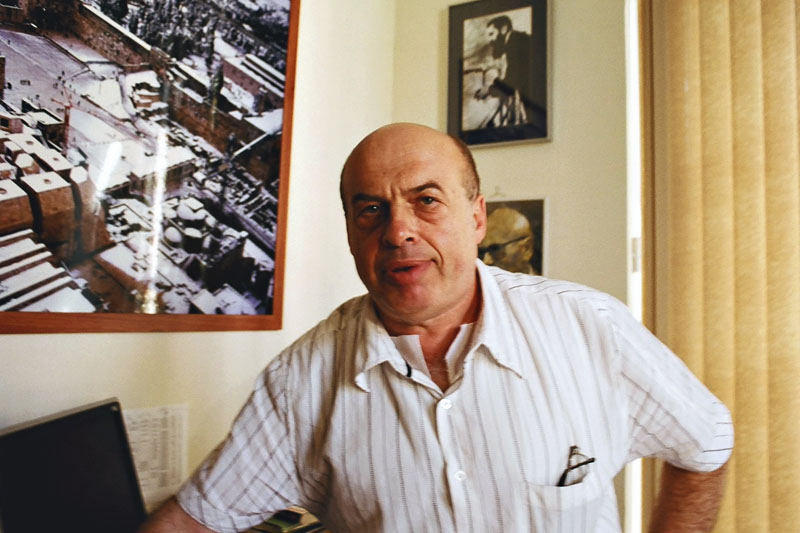 former israeli minister, former political prisoner